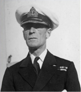 Portrait of Sir Philip Vian